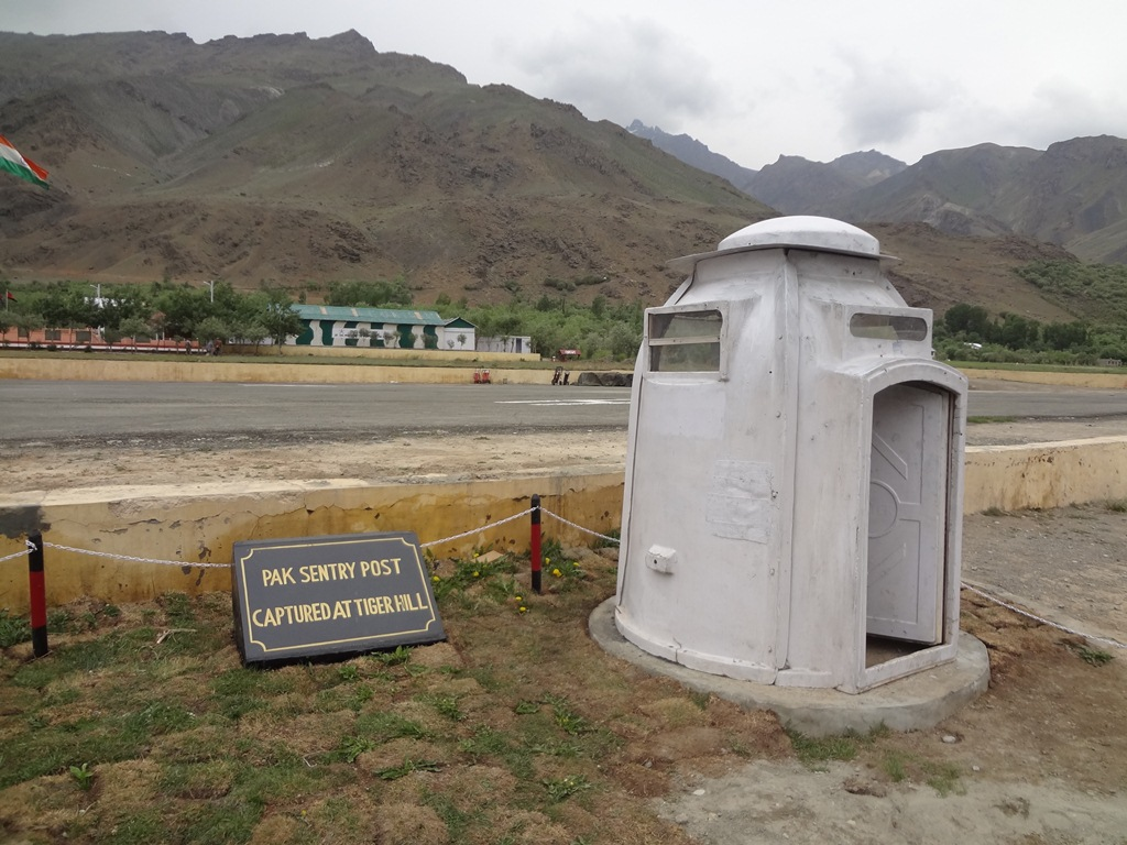 Sentry post captured by the Indian Army during the Kargil war